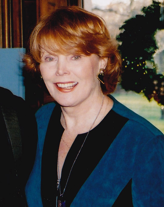 Marie Wallace in fall 2001.